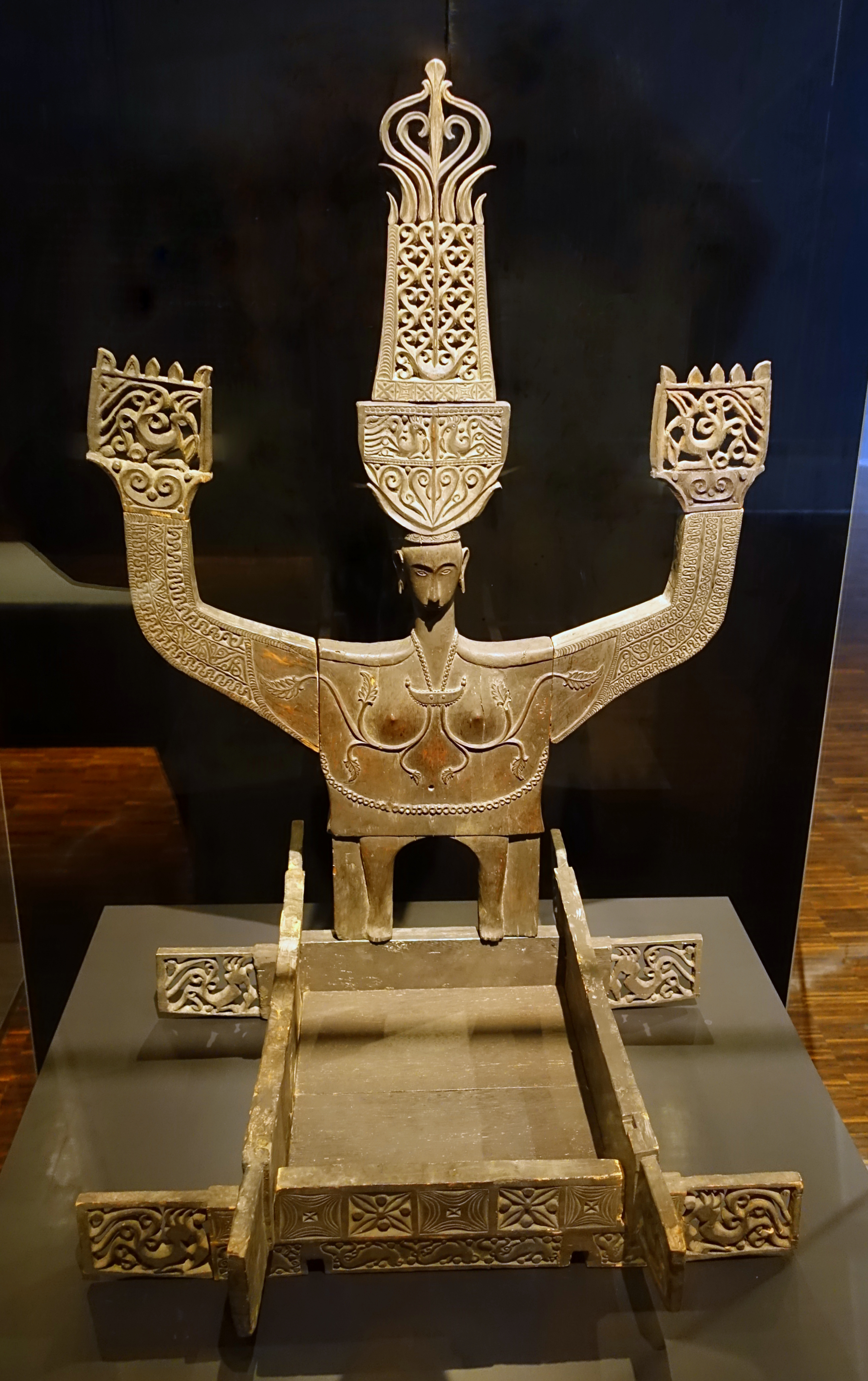 Exhibit in the Rautenstrauch-Joest-Museum - Cologne, Germany.